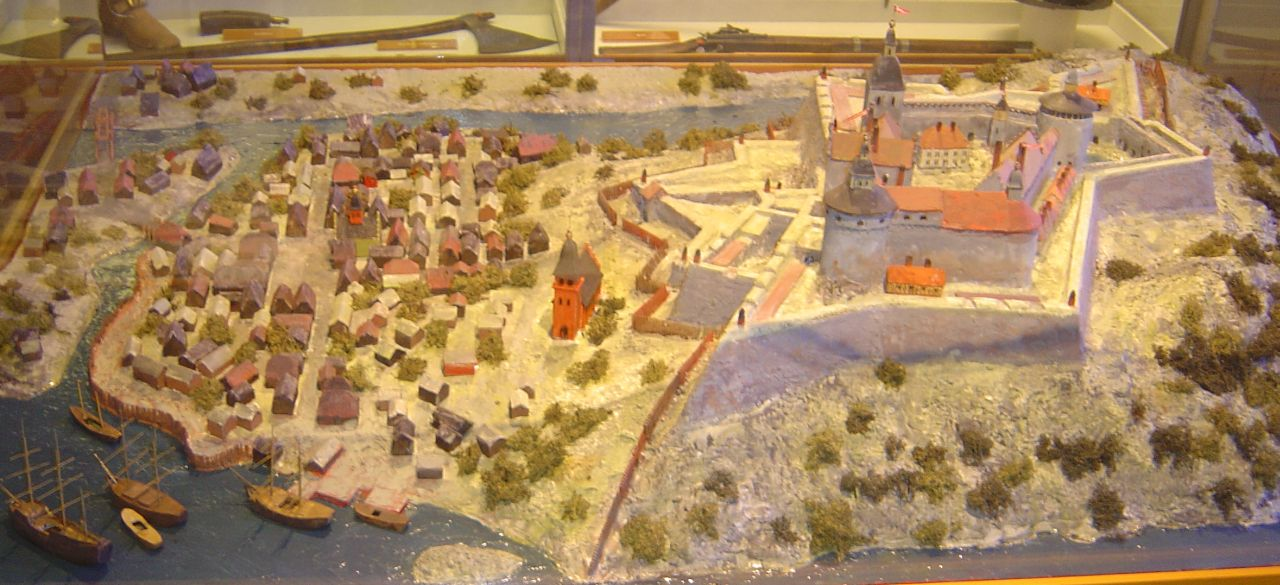 Photo of a model of the Båhus fortress, as it was when it was part of Denmark-Norway. The model is at the Armed forces museum, Akershus fortress, Oslo, Norway. Picture taken by Ulf Larsen in August 2005 with a Sony digital camera.